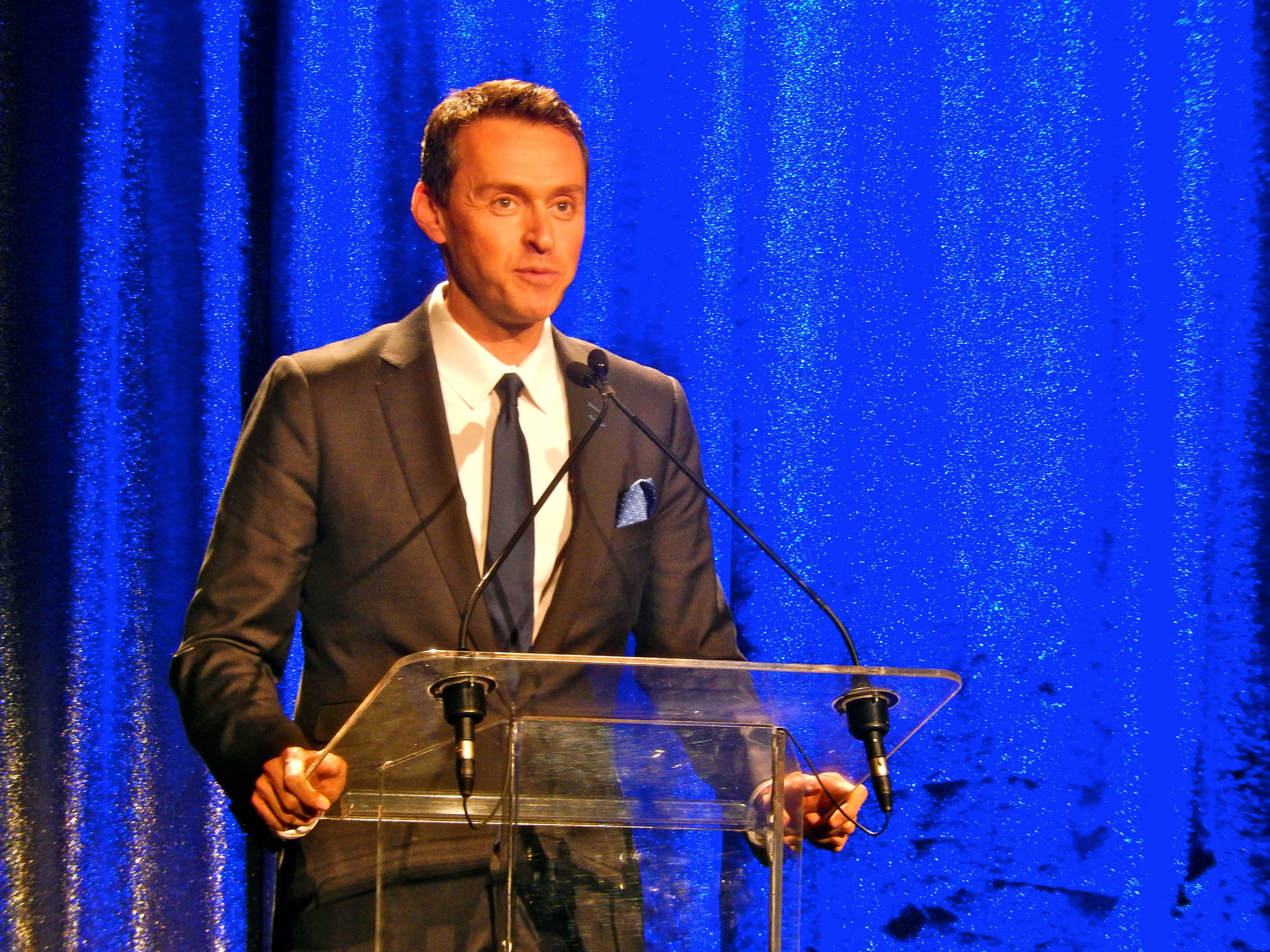 Andrew Lippa in 2013